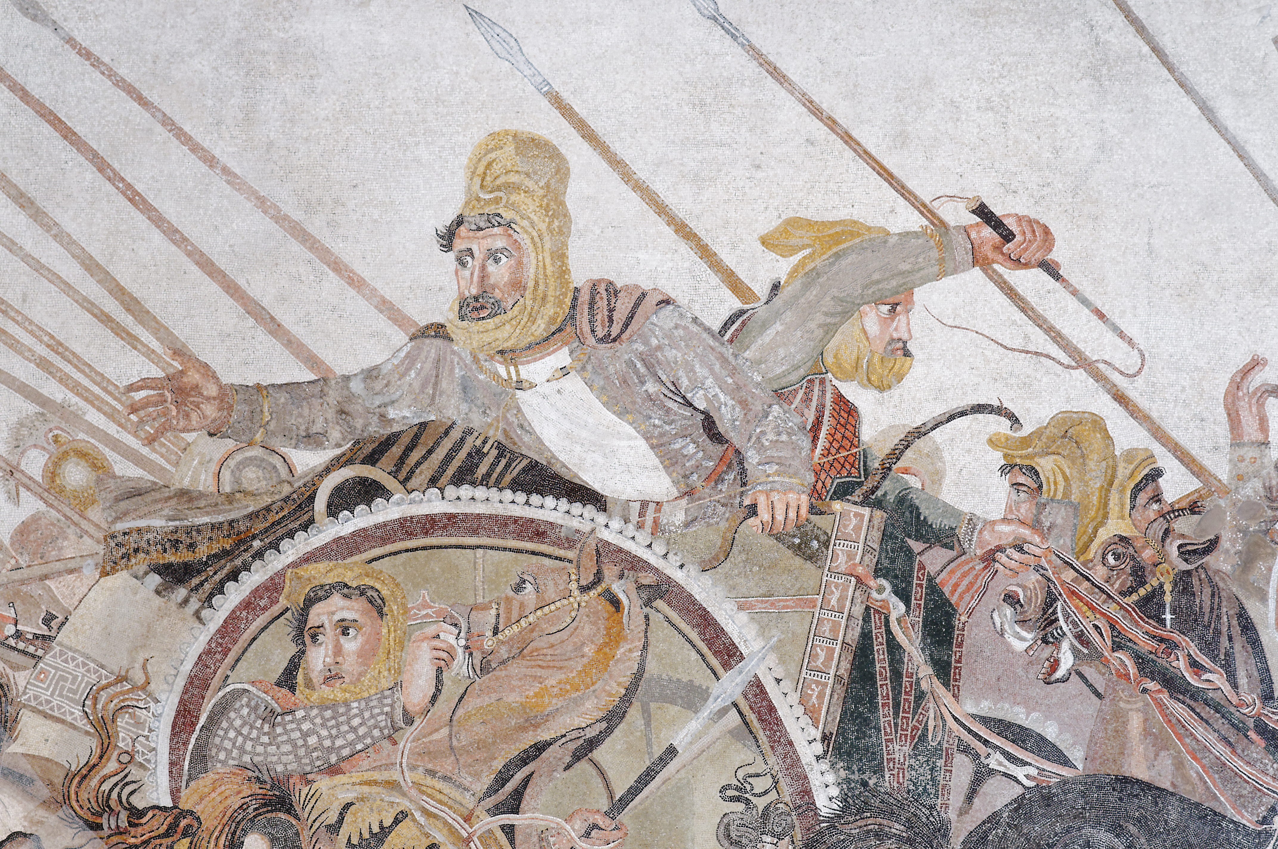 Darius III retreating, detail of a representation of the battle of Issos. Floor mosaic, Roman copy after a Hellenistic original by Philoxenos of Eretria.